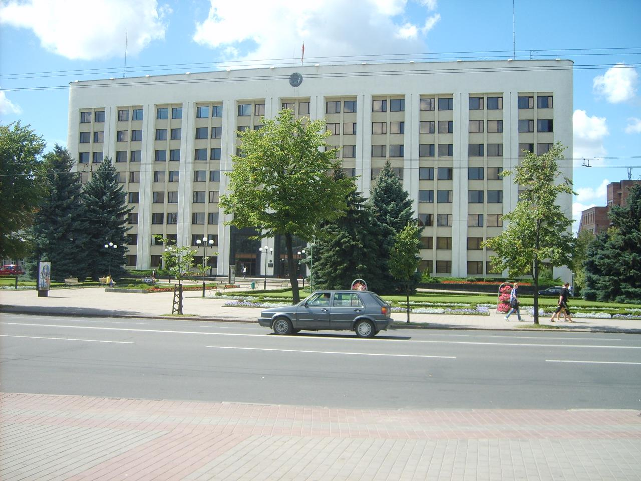 The building of the Mogilev Regional Committee of the PBC